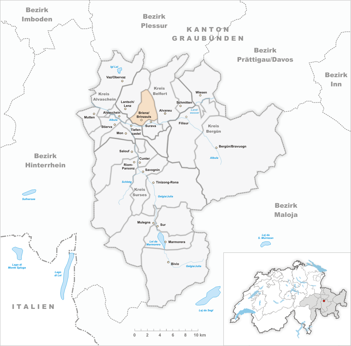 Municipality Brienz Brinzauls